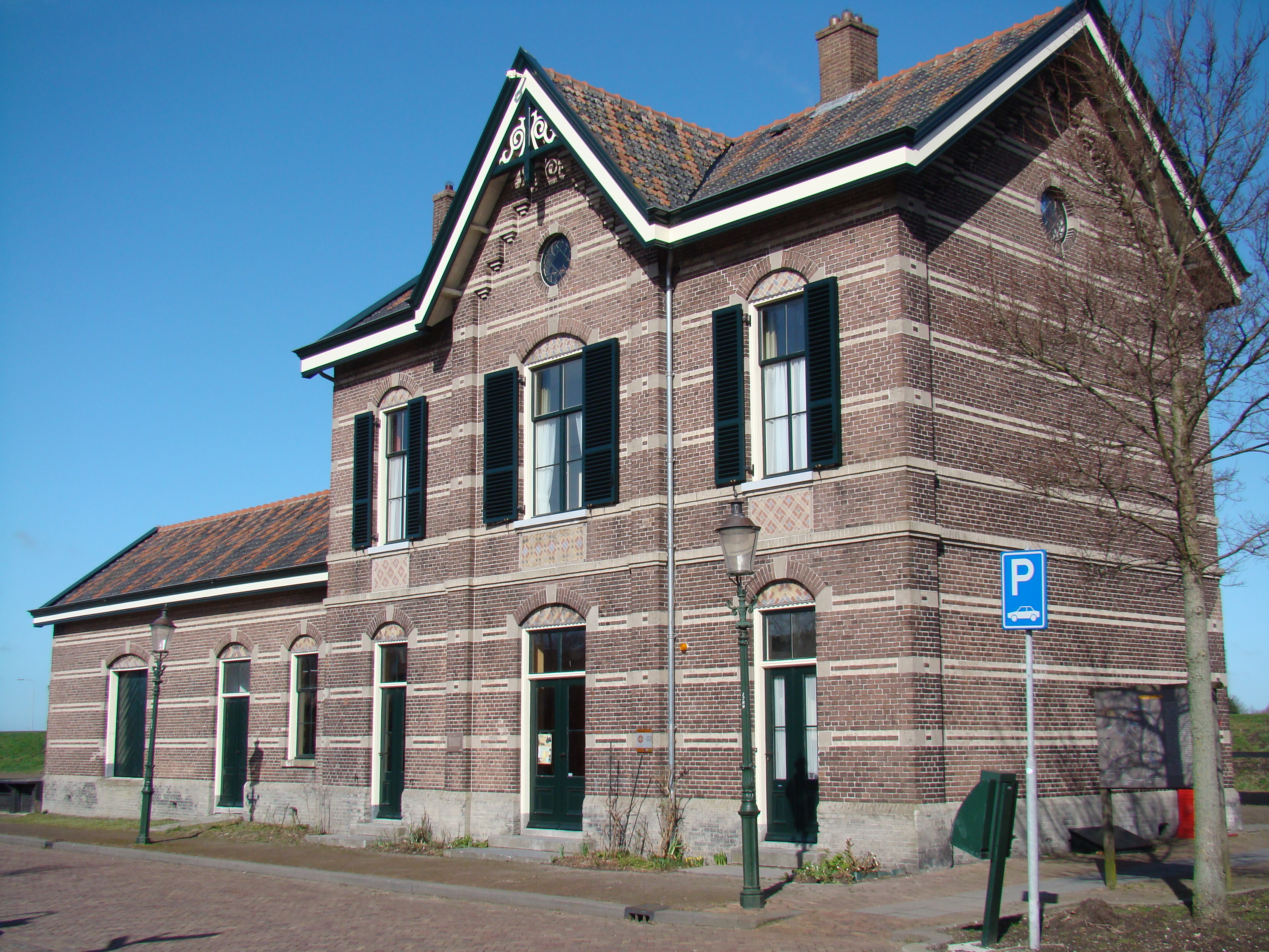 Station Medemblik, Netherlands